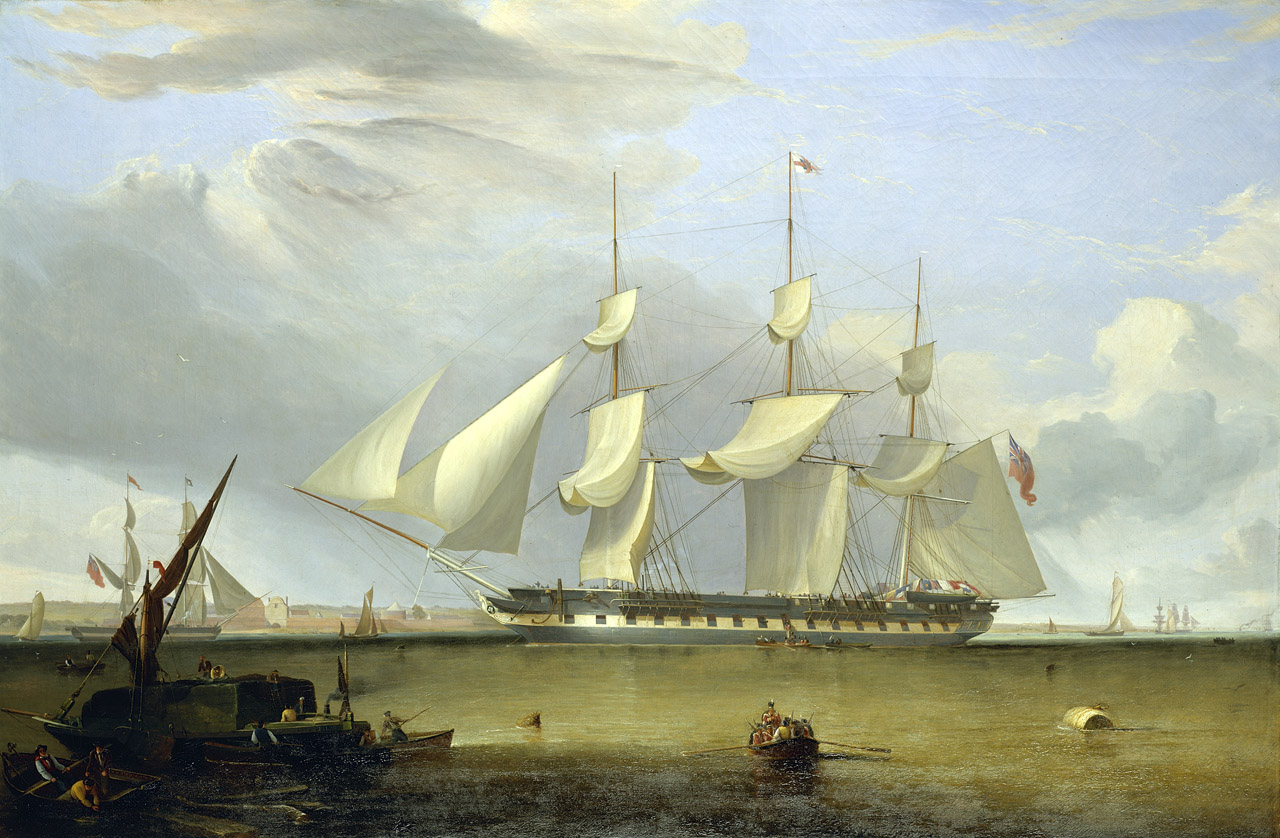 The Prince of Wales was a large vessel specially fitted-out for the conveyance of the East India Company's troops. She was built by Green's of Blackwall in 1842 to a design known as that of the "Blackwall Frigates" - Indiamen with the single-decked appearance of frigates. The ship is shown anchored off Gravesend, with Tilbury Fort on the north Bank of the Thames under her bow. The river vessels in the left foreground include a swim-head, ketch-rigged Thames barge with a load of baled hay. A merchantman flying the Blue Peter flag is passing down stream under pilot between the 'Prince of Wales' and the fort, and other shipping can be seen further down river on the right.